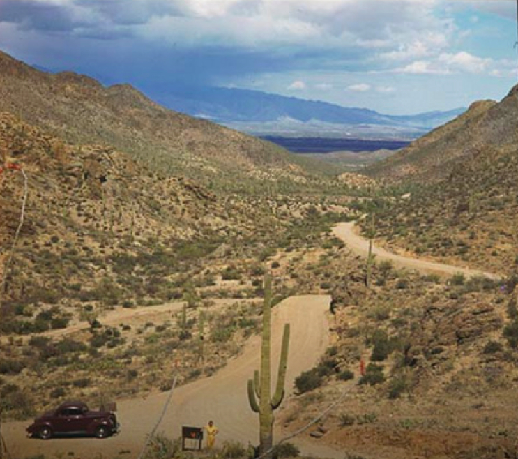 Description: Down toward Tucson from Gates Pass. Creator: Cushman, Charles Weever, 1896-1972 View source image or order reproductions. More information on the commercial rights for this photo. Part of Charles W. Cushman Collection Indiana University, Bloomington. University Archives. Brought to you by IMLS Digital Collections and Content. Unrestricted access; use with attribution.